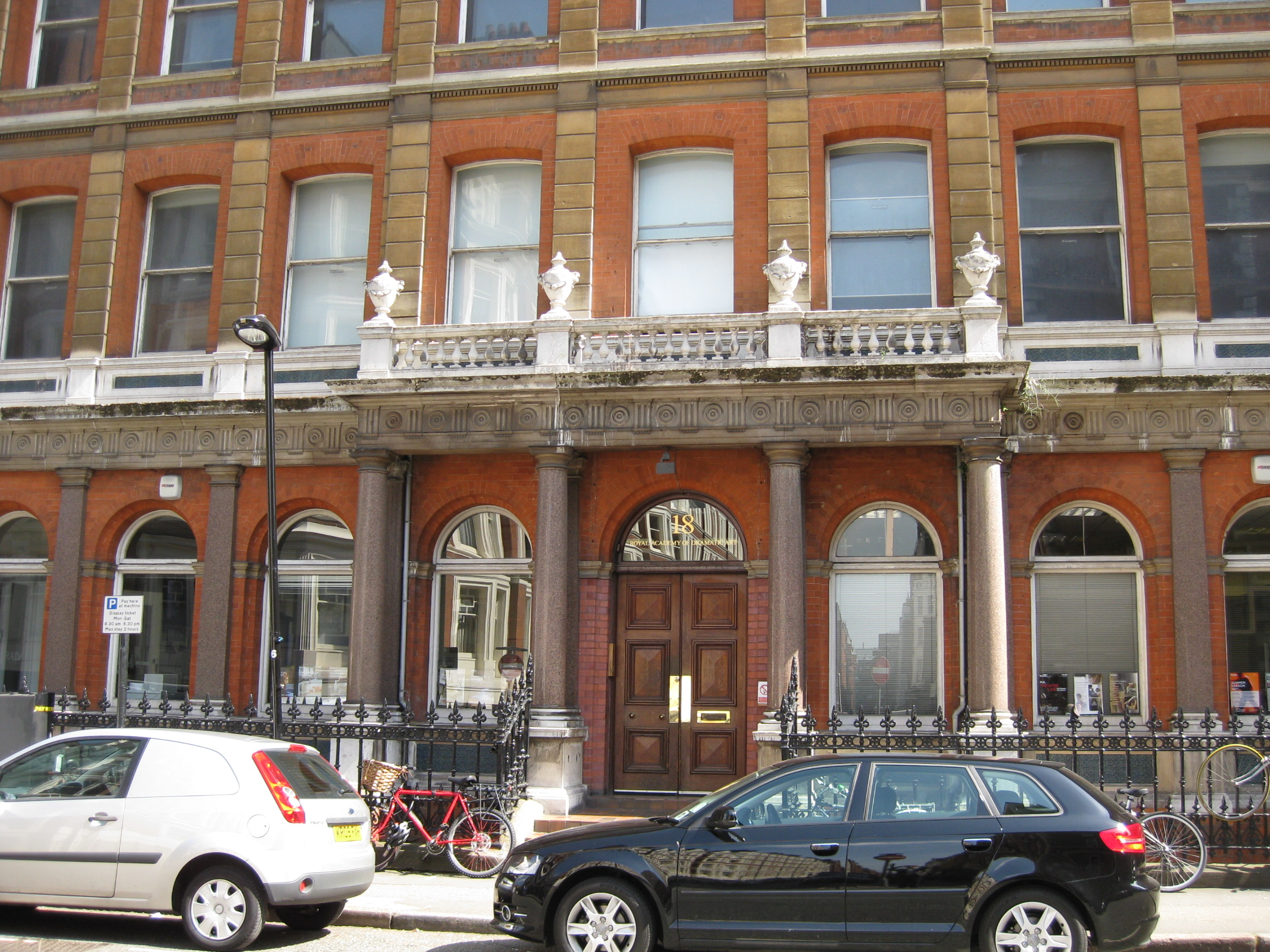 Royal Academy of Dramatic Arts, Chenies Street, London WC1E